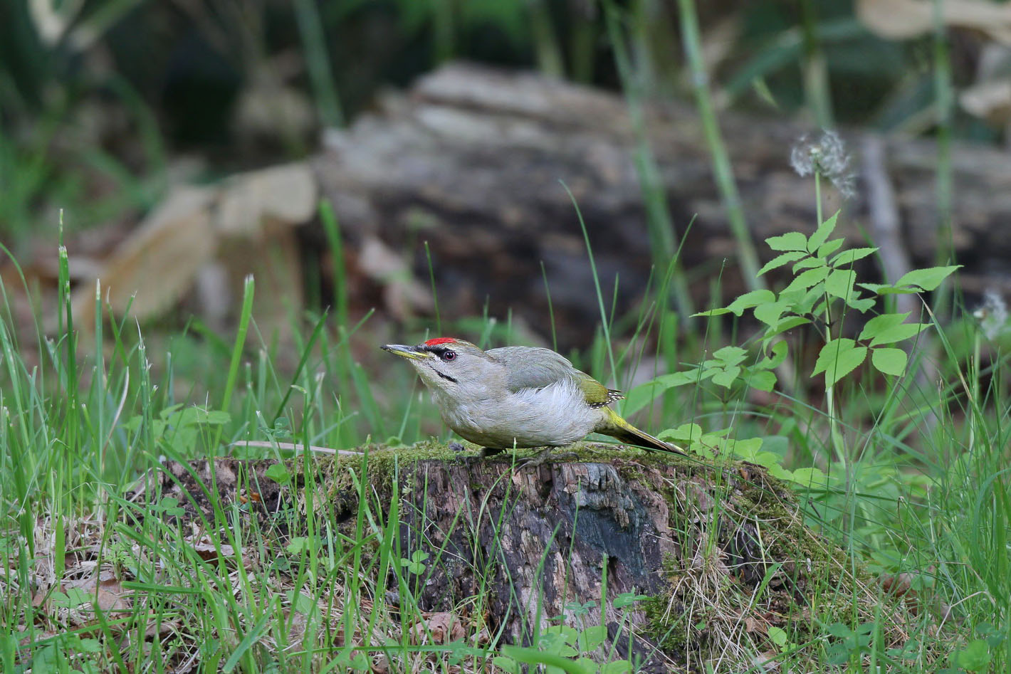 Grey-headed Woodpecker Picus canus jessoensis, Shikotsuko, Hokkaido, Japan